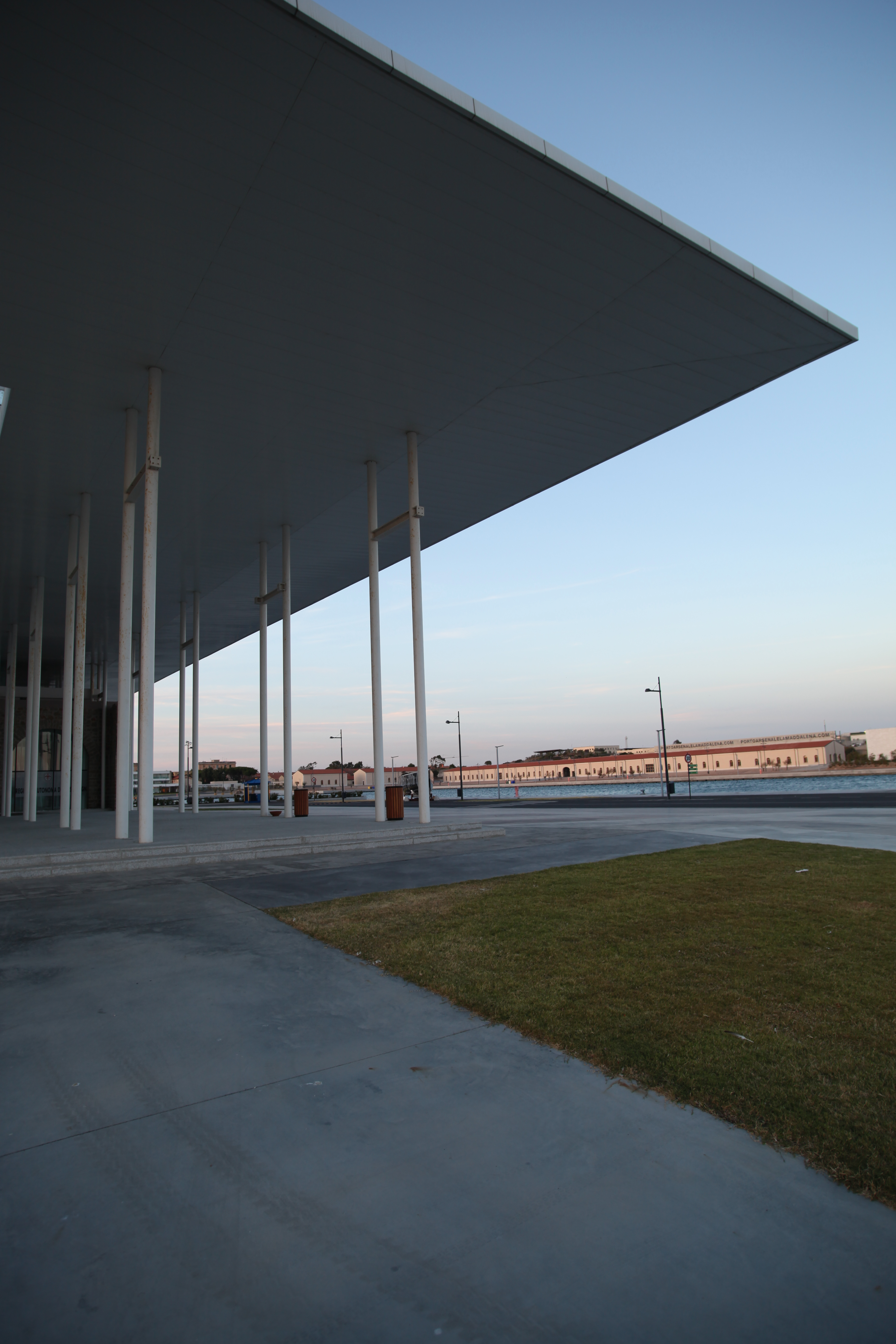 Arsenale (g8 summit la maddalena) la maddalena - sardinia - sardegna